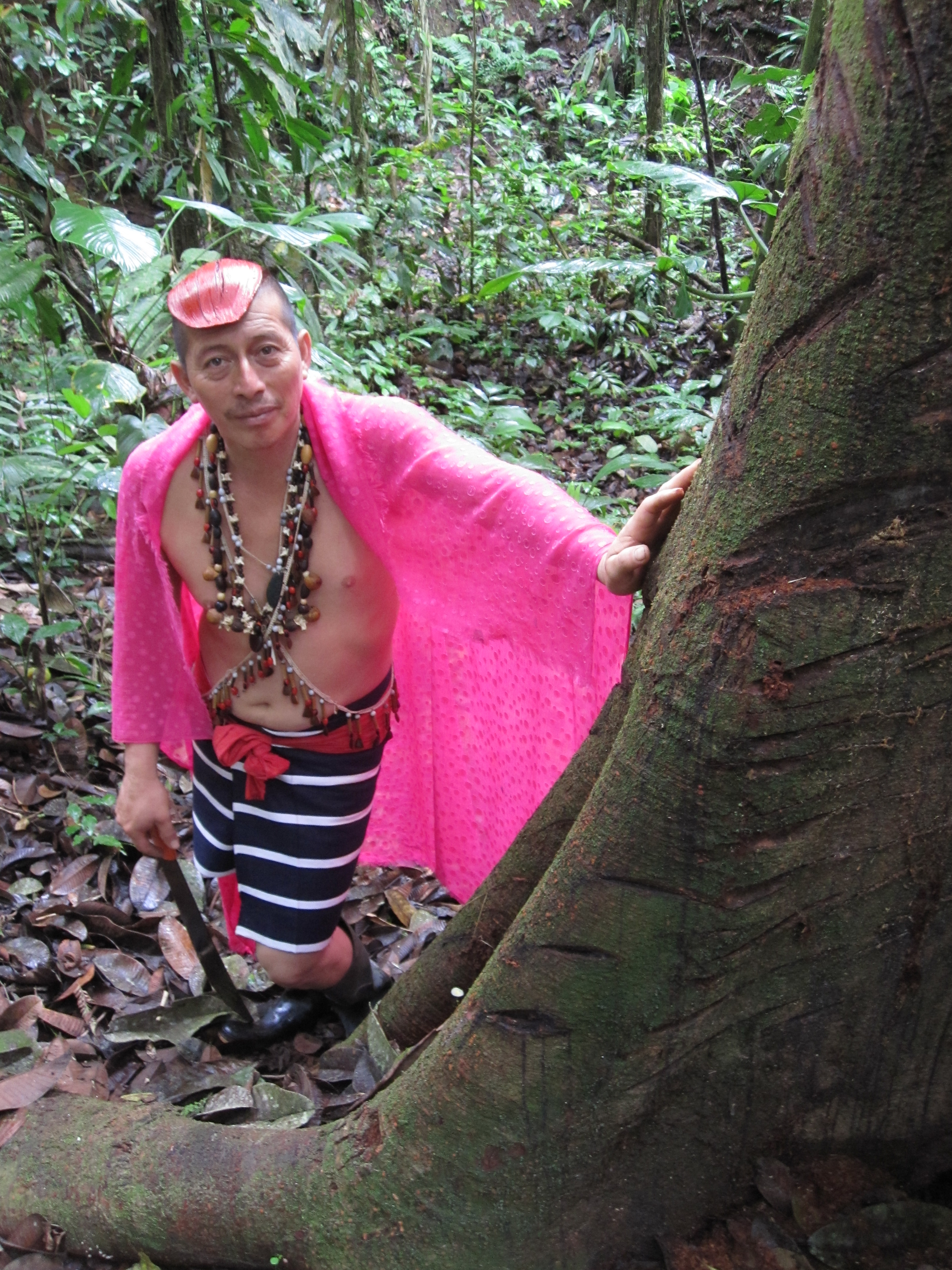 Tsachila man (guiding a walk through the forest), near Santo Domingo de los Tsachilas, Ecuador